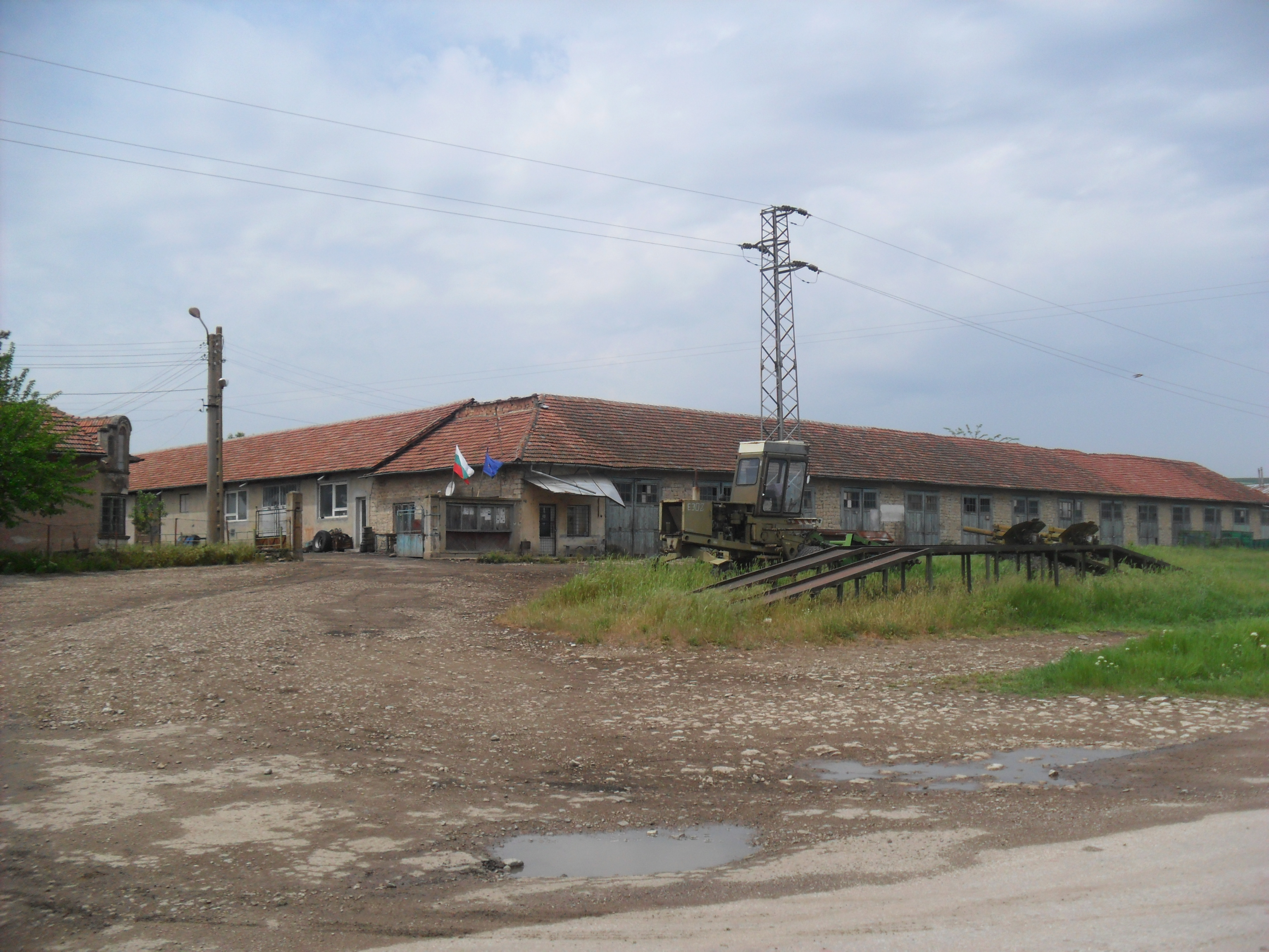 ex building of Labor-cooperative farm "Georgi Dimitrov", Polski Senovets, Bulgaria